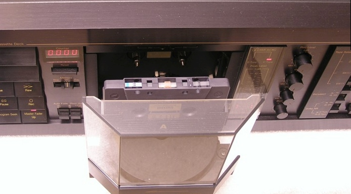 Nakamichi RX-505 Cassette Deck, top view of mechanism with tape ejected.